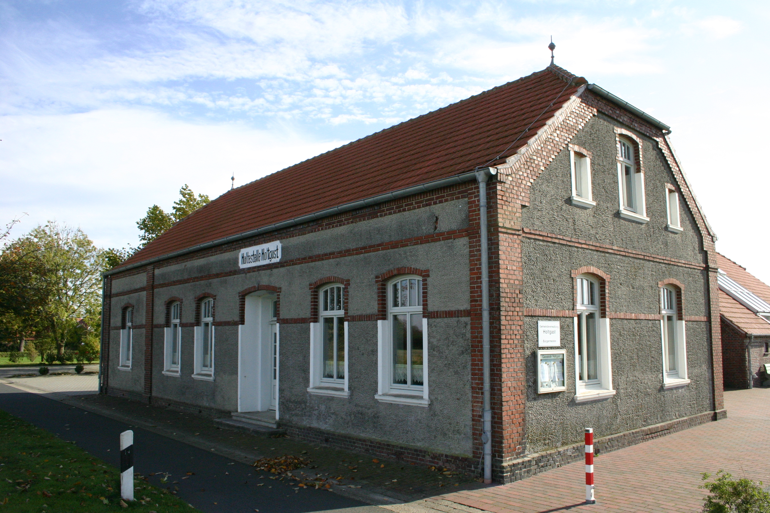 Former train station in Holtgast (district of Wittmund, East Frisia, Germany)